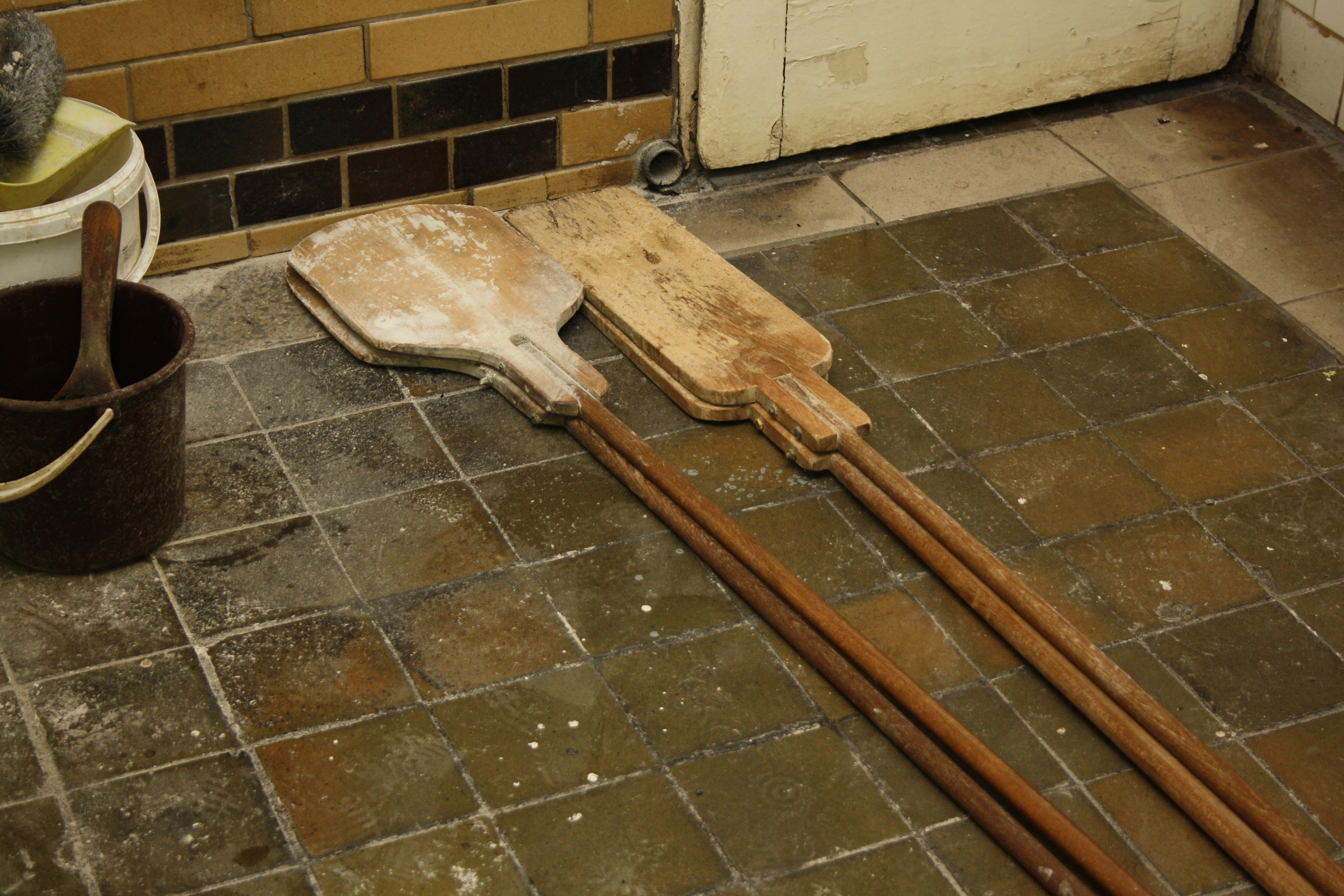 Tool for taking out bread from baking oven in Czech Republic This photograph was taken with a DSLR from WMCZ's Camera grant. This picture was taken and/or got within the scope of the 'Acquiring scientific and specialized pictures' grant.